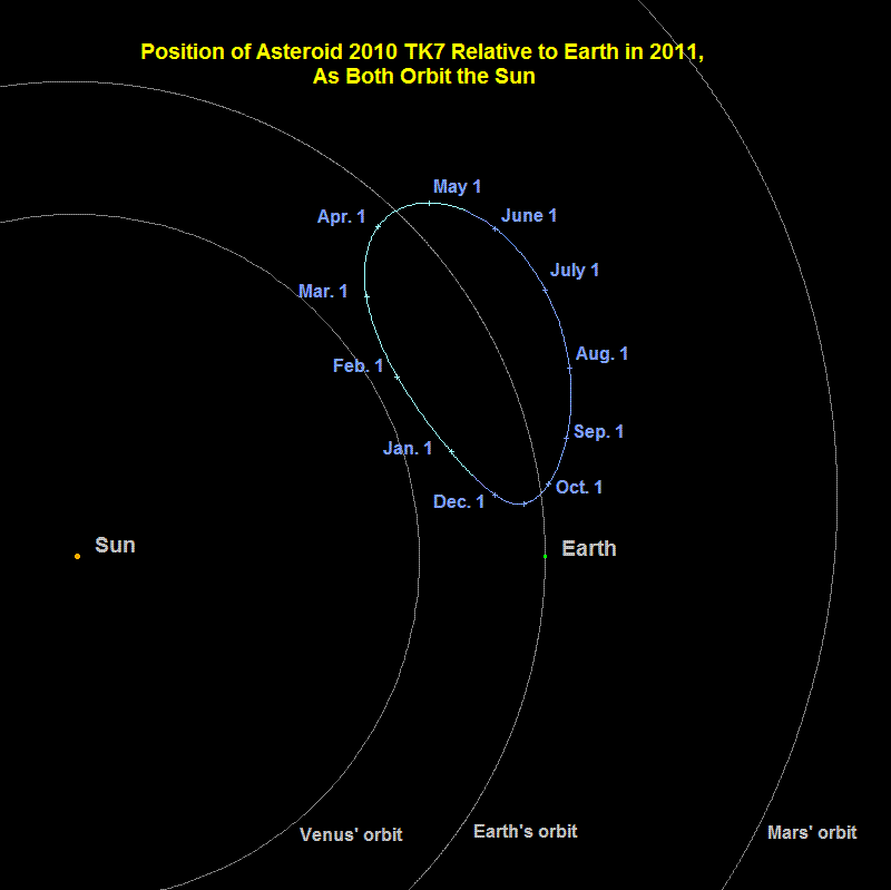 The motion of 2010 TK7 in 2011 relative to Earth, looking down from above the Solar System. Although Earth and asteroid both actually orbit the Sun, the relative motion appears as a large loop. The brighter portion of the trajectory is above the Earth's orbital plane.